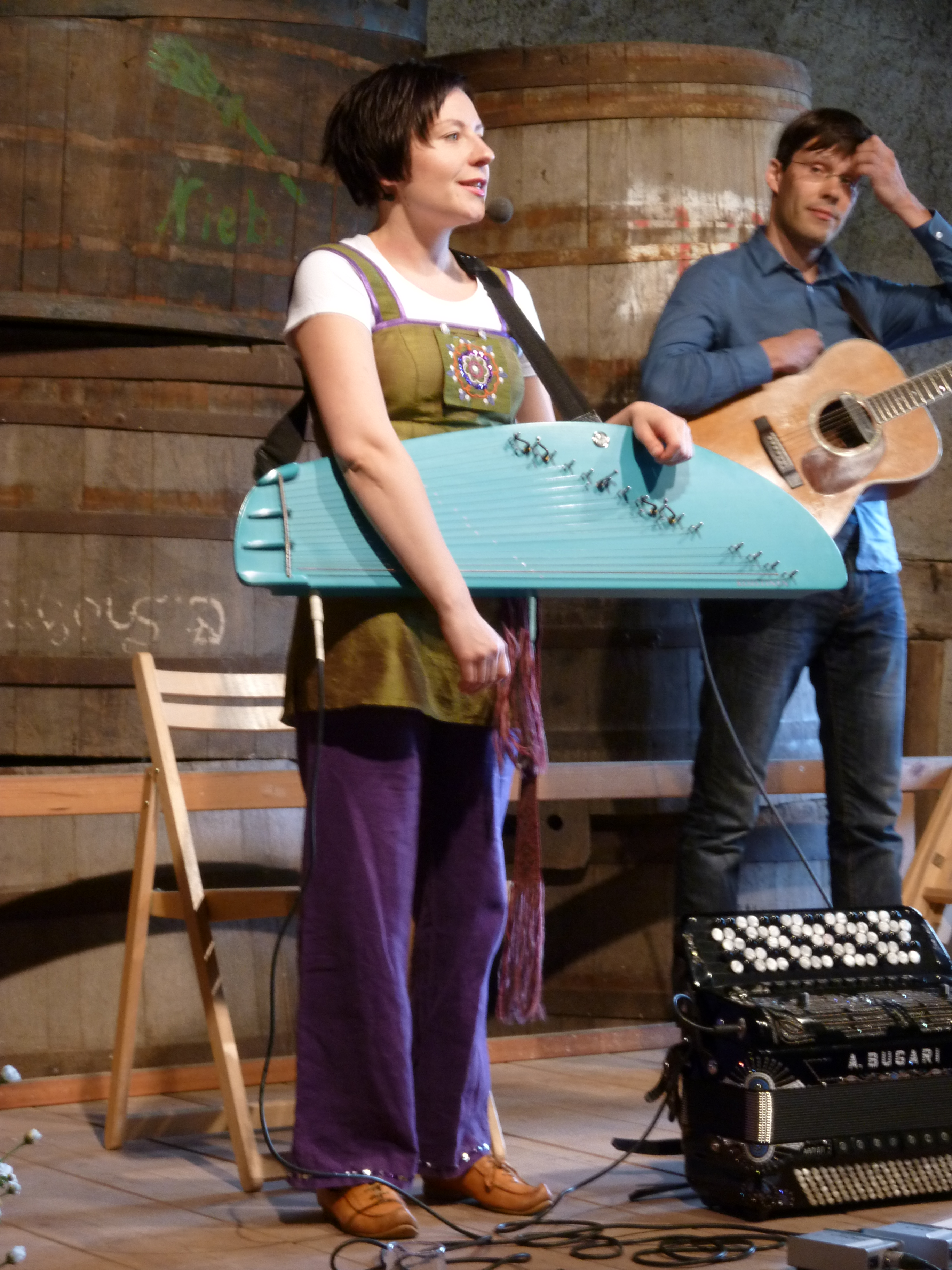 I realized the connection between shutter time and ISO last night. My twenty first photos were very unsharp and bright - trying to get sharp picures in a semi dark room with no flash - I had to experiment. These pictures are experiments. Some day I will know for real :-)